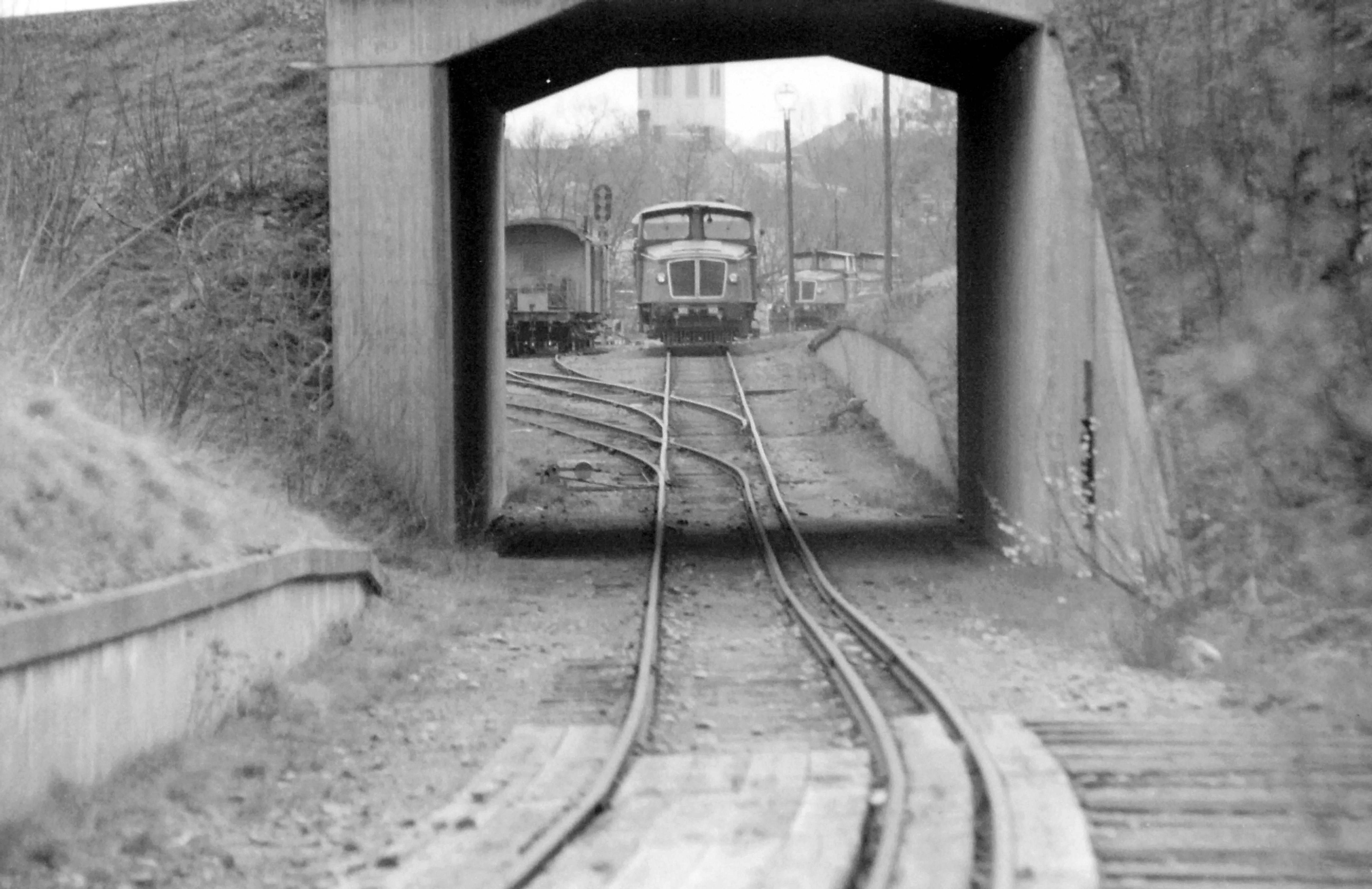 Three rail track outside Karlshamn West station